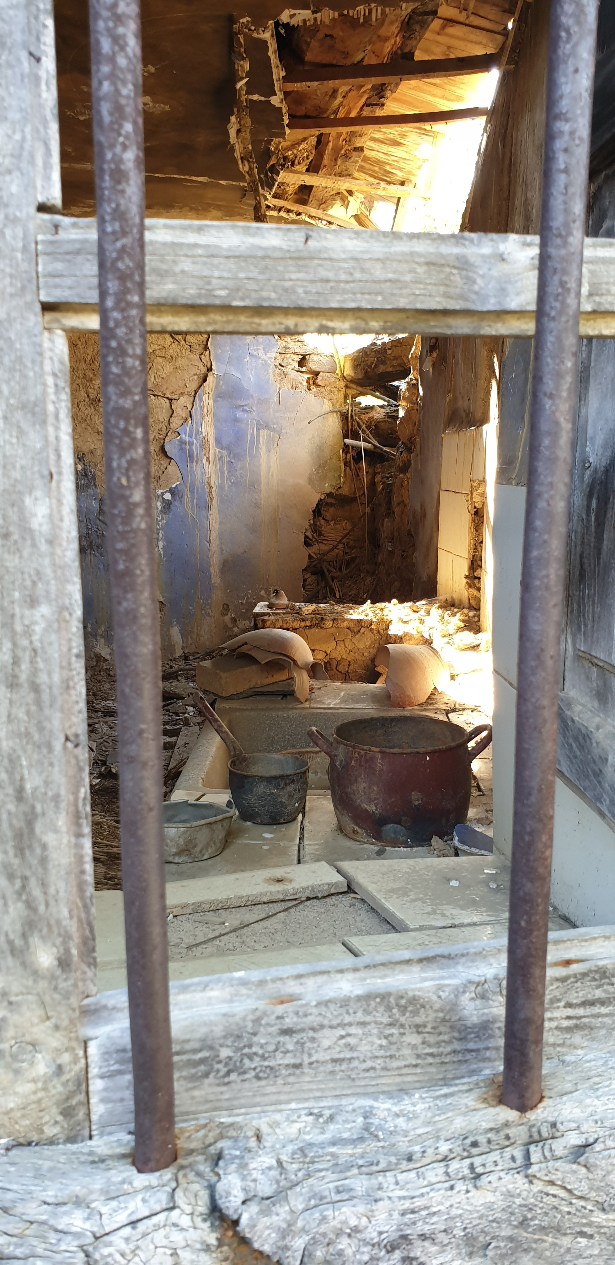 Valdavido y su entorno